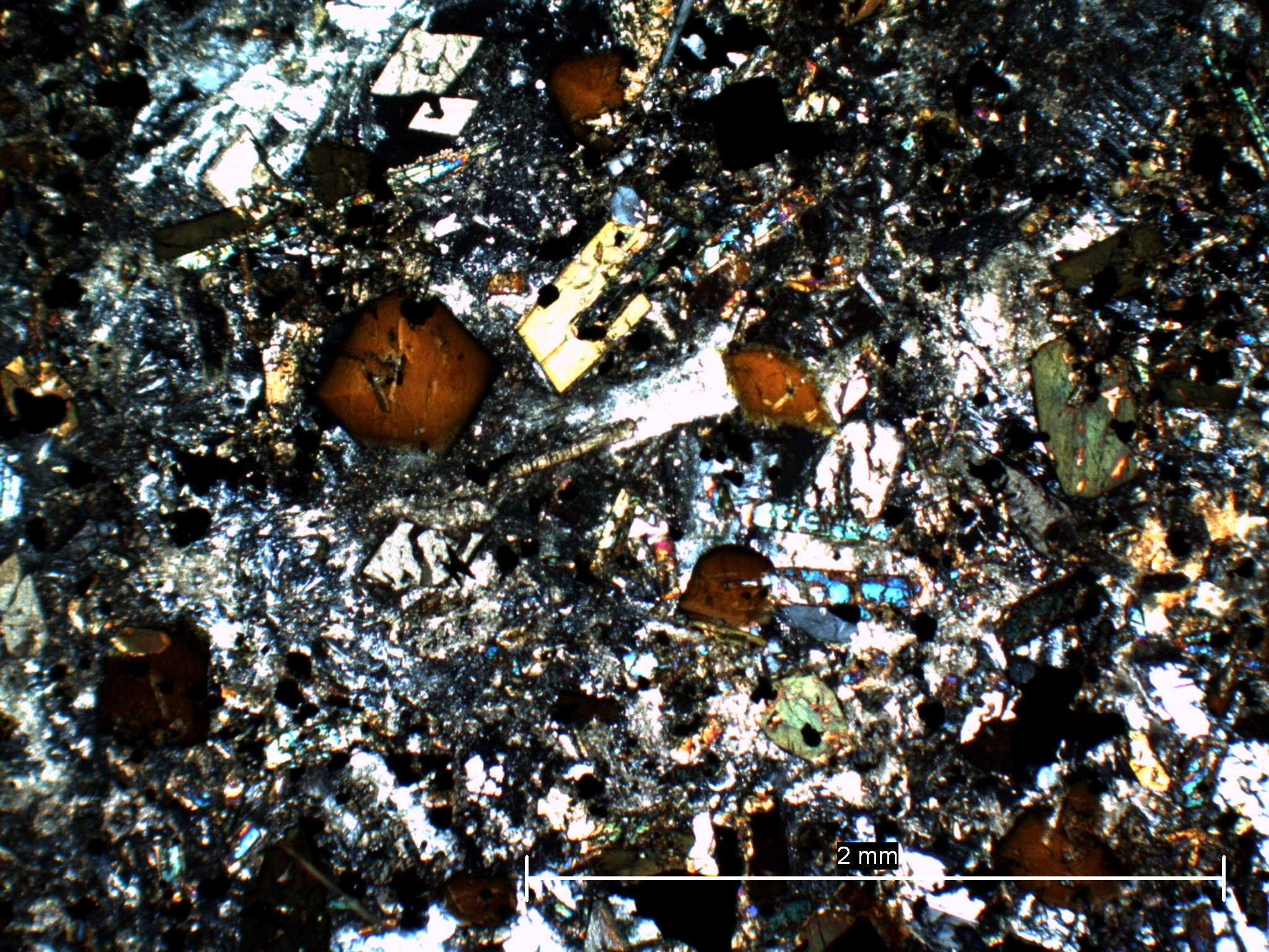 Thin section under crossed polars of monchiquite sill from Sainte Dorothée, Quebec, Canada. Courtesy Nelson Eby.